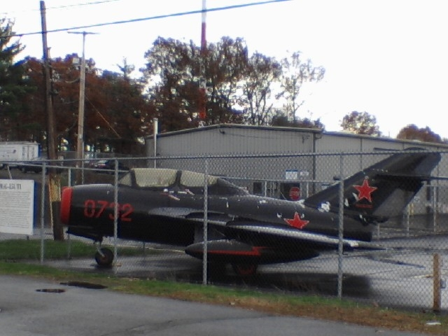 MiG-15UTI on informal display at Beverly Airport in Beverly, Massachusetts, USA.